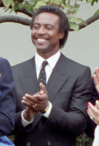 Kansas City Royals player Frank White at the White House, 1985